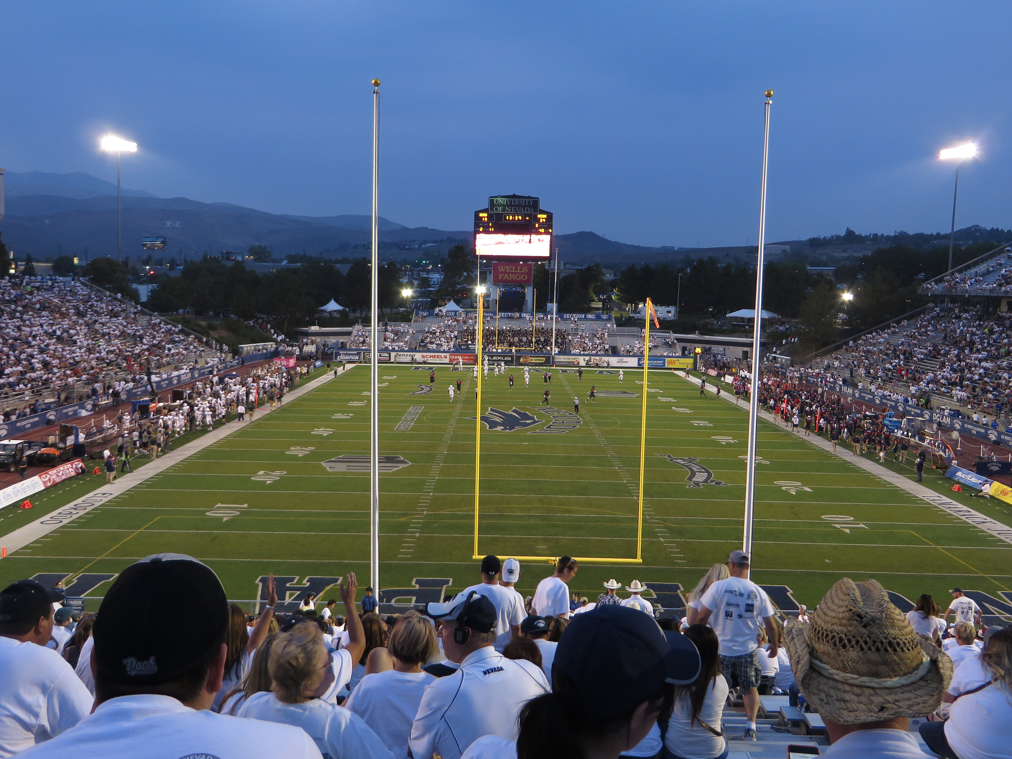 Arizona prevailed over Nevada fairly easily.